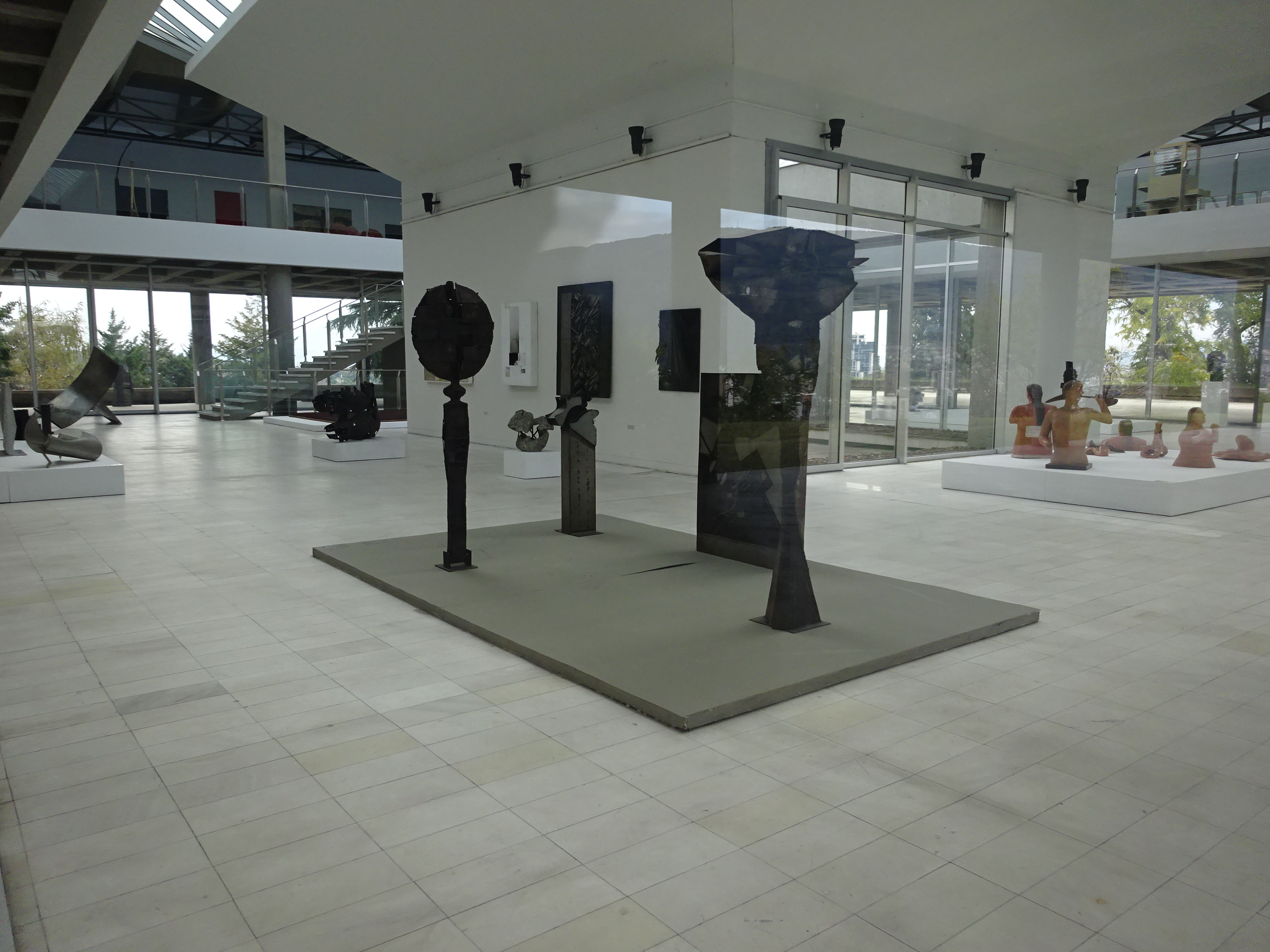 The Museum of Contemporary Art in Skopje-Macedon Ова е фотографија на споменик на културата во Македонија со типски код: B08This is a a photo of a cultural monument in North Macedonia with type id: B08